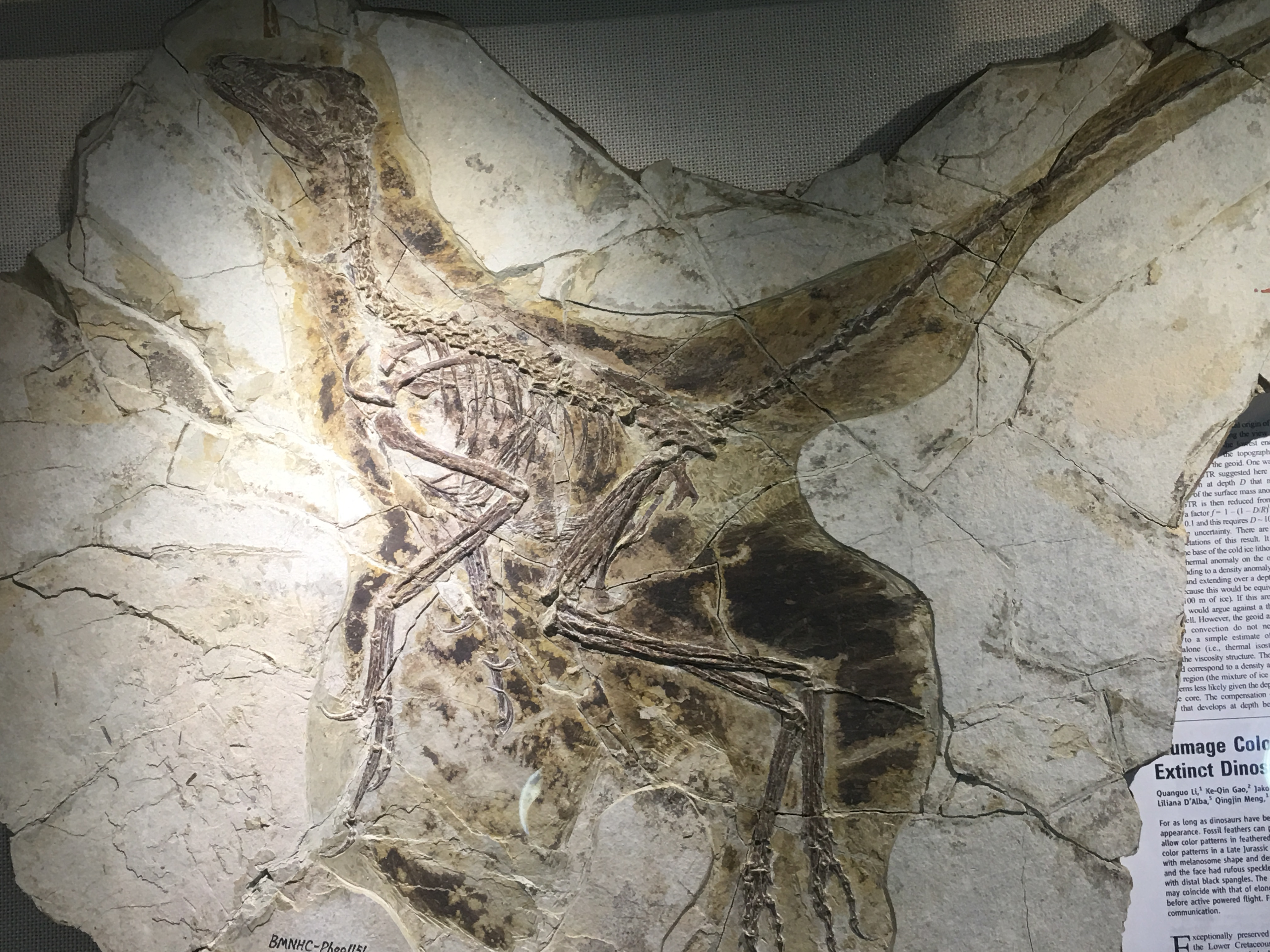 Image of specimen in the Beijing Museum of Natural History, China